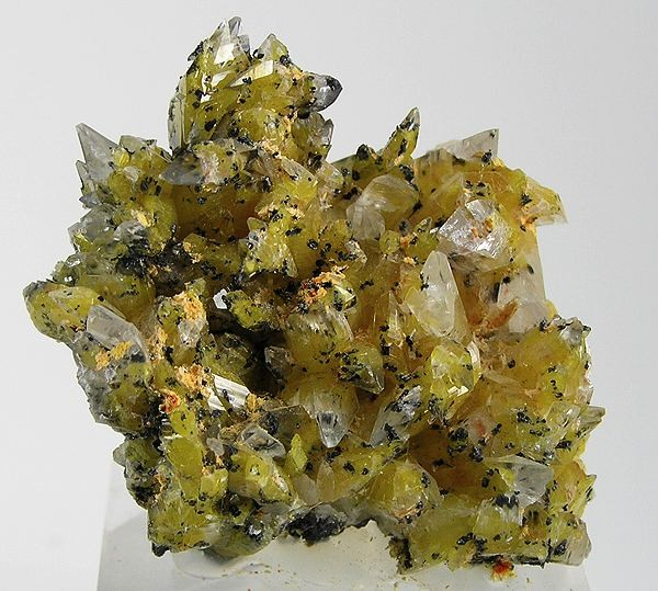 Orpiment, Calcite Locality: Jiepaiyu Mine (Shimen Mine), Shimen As-(Au) deposit, Shimen County, Changde Prefecture, Hunan Province, China (Locality at ) Size: 5.3 x 5.2 x 2.8 cm. Bright yellow orpiment intergrown with, and in some places included inside, sharp prisms of calcite -- from Shimen, a noted locality for realgars and closely-related orpiment.